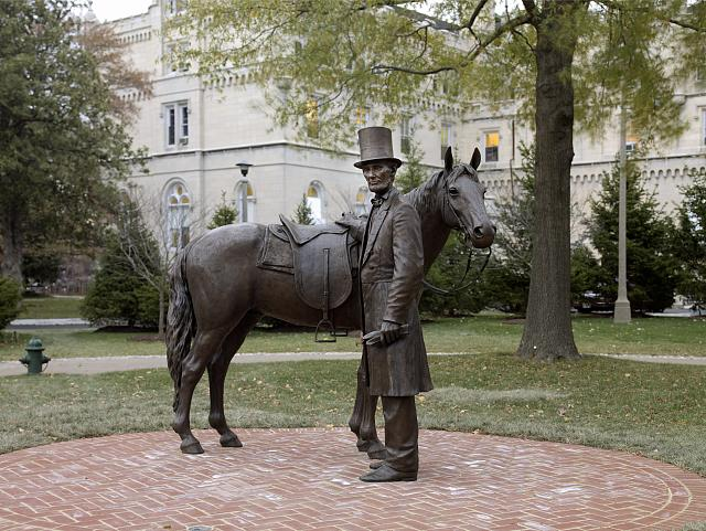 Bronze statue of Abraham Lincoln and his horse at the Lincoln Summer Home located on the grounds of the Armed Forces Retirement Home in northwest Washington, D.C. The sculptors are Stuart Williamson and Jiwoong Cheh; working for the design shop StudioIES in Brooklyn; New York. The statue differs from so many others of Abe in that this one actually shows him with a slight smile; as if Lincoln is greeting a valued friend or relative upon arrival at his summer home.